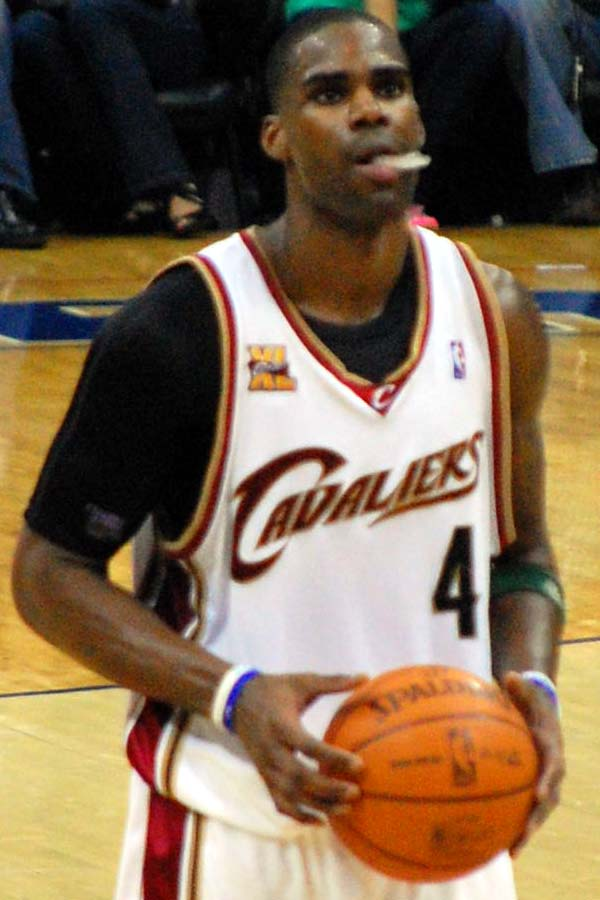 Antawn Jamison with the Celveland Cavaliers. This file has been extracted from another file: Antawn Jamison Cleveland Cavaliers vs Atlanta Hawks.jpg